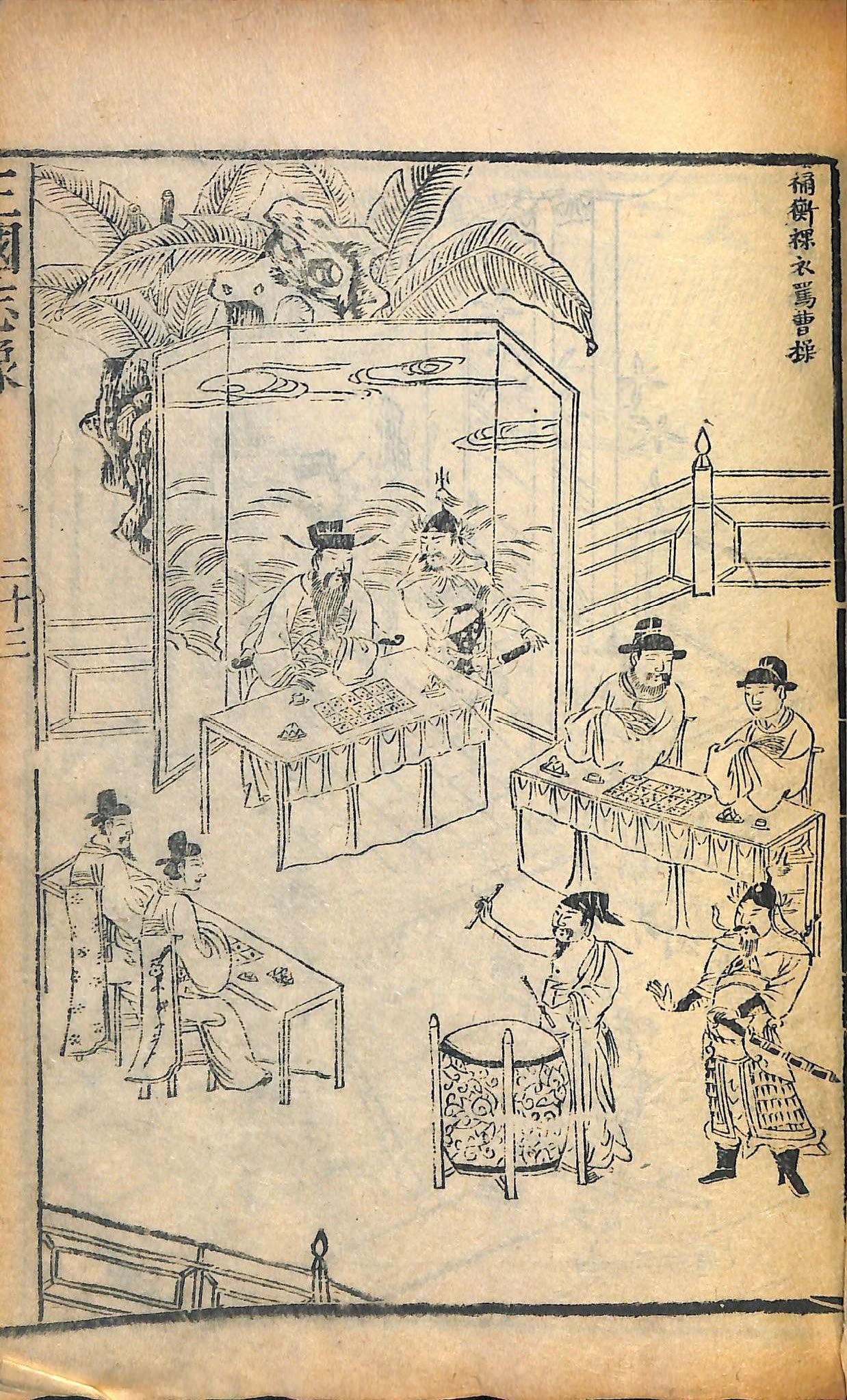 Illustration from Romance of the Three Kingdoms (San Guo Yan Yi) depicting Mi Heng beating the drum with his clothes off in front of Cao Cao. This is one of the two illustrations for chapter 23: Mi Heng Slips His Garment and Rails at Traitors; Ji Ping Pledges to Kill the Prime Minister. (Chapter name translated by C.H. Brewitt-Taylor.)